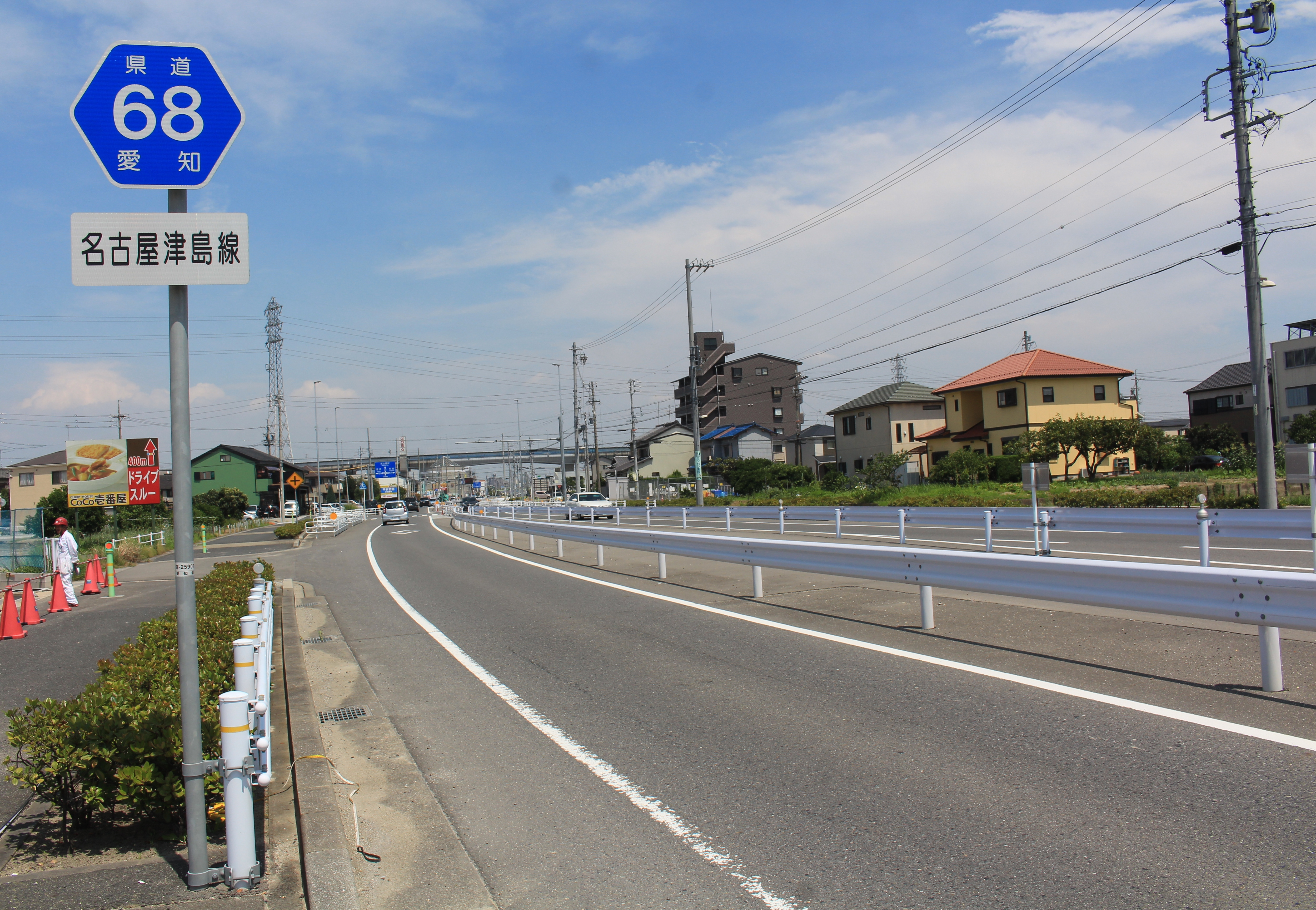 Aichi Prefectural Road Route 68 in Oharu, Ama, Aichi prefecture, Japan.